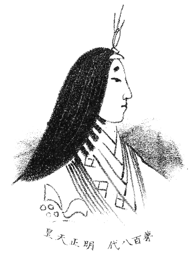 Empress Meishō, who was the 109th Imperial ruler of Japan